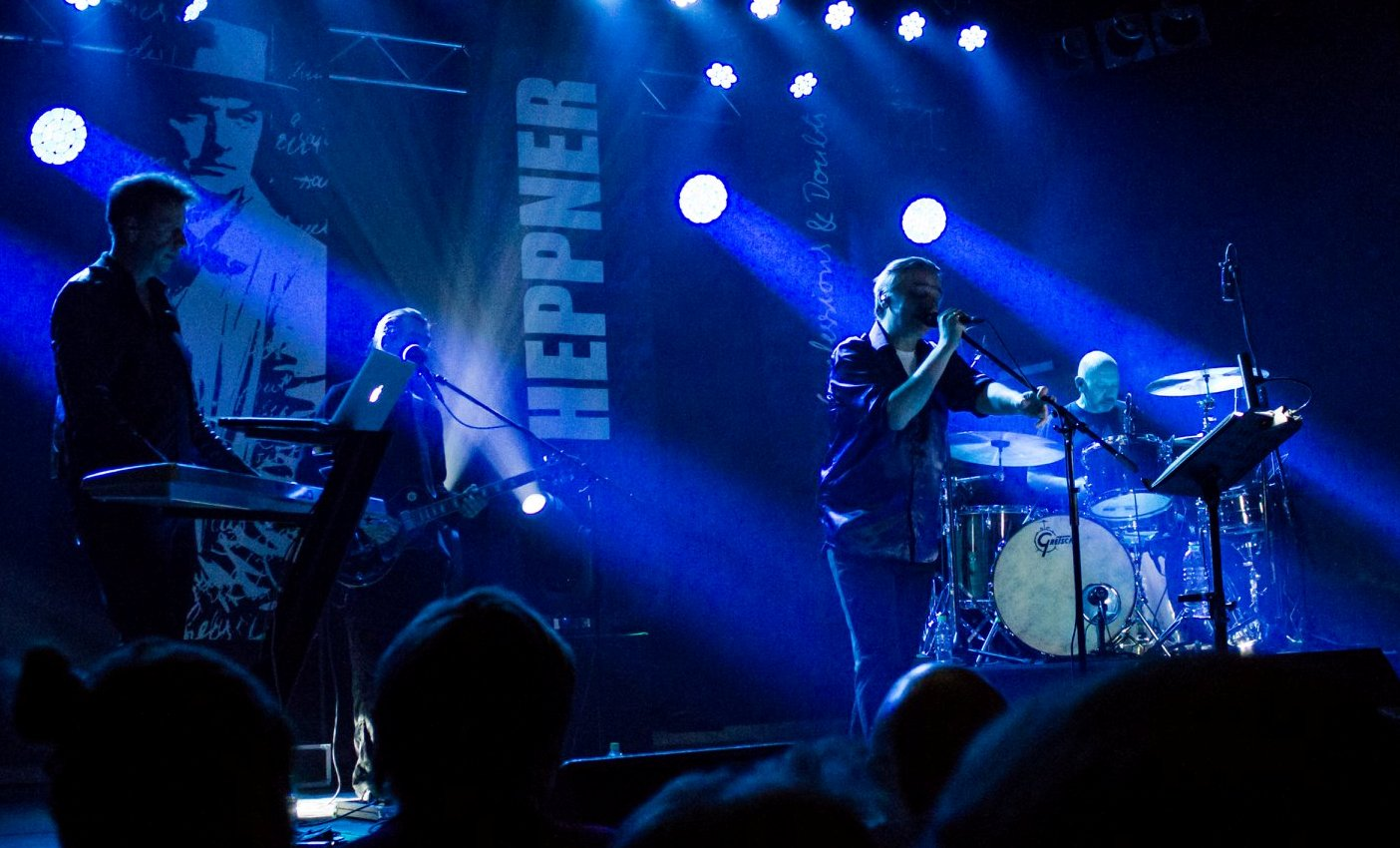 German singer Peter Heppner with Band during the "Confessions & Doubts Tour 2018" at Alte Spinnerei Glauchau, Germany.